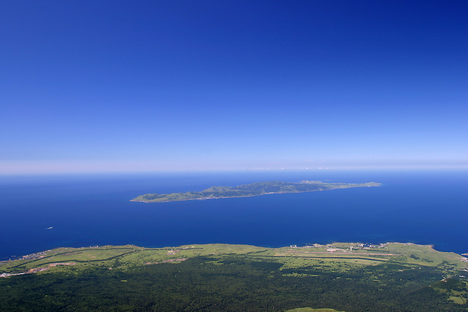 Rebun Island (background) seen from the mountaintop of Mount Rishiri on Rishiri Island (foreground).